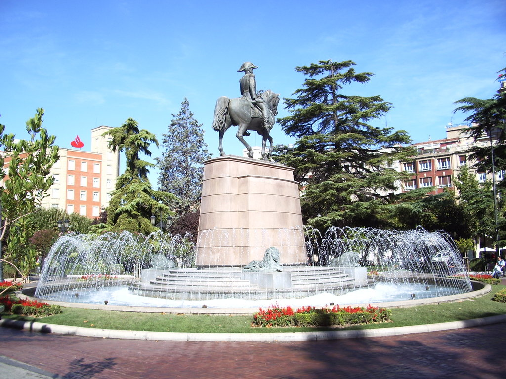 View of Square of Paseo del Príncipe de Vergara (more commonly known as "El Espolón"), in the center of Logroño